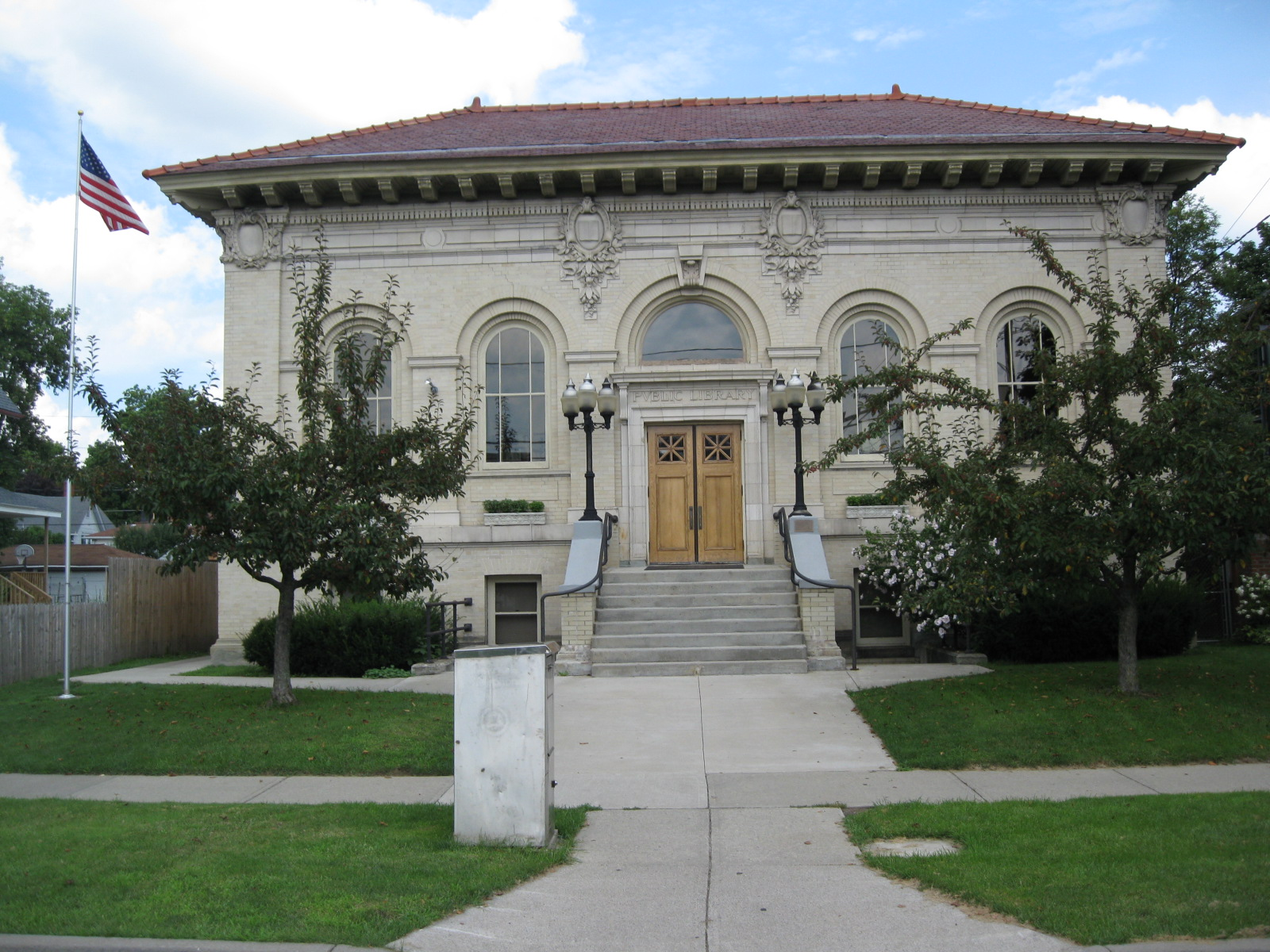 Hornell Public Library 082309 136